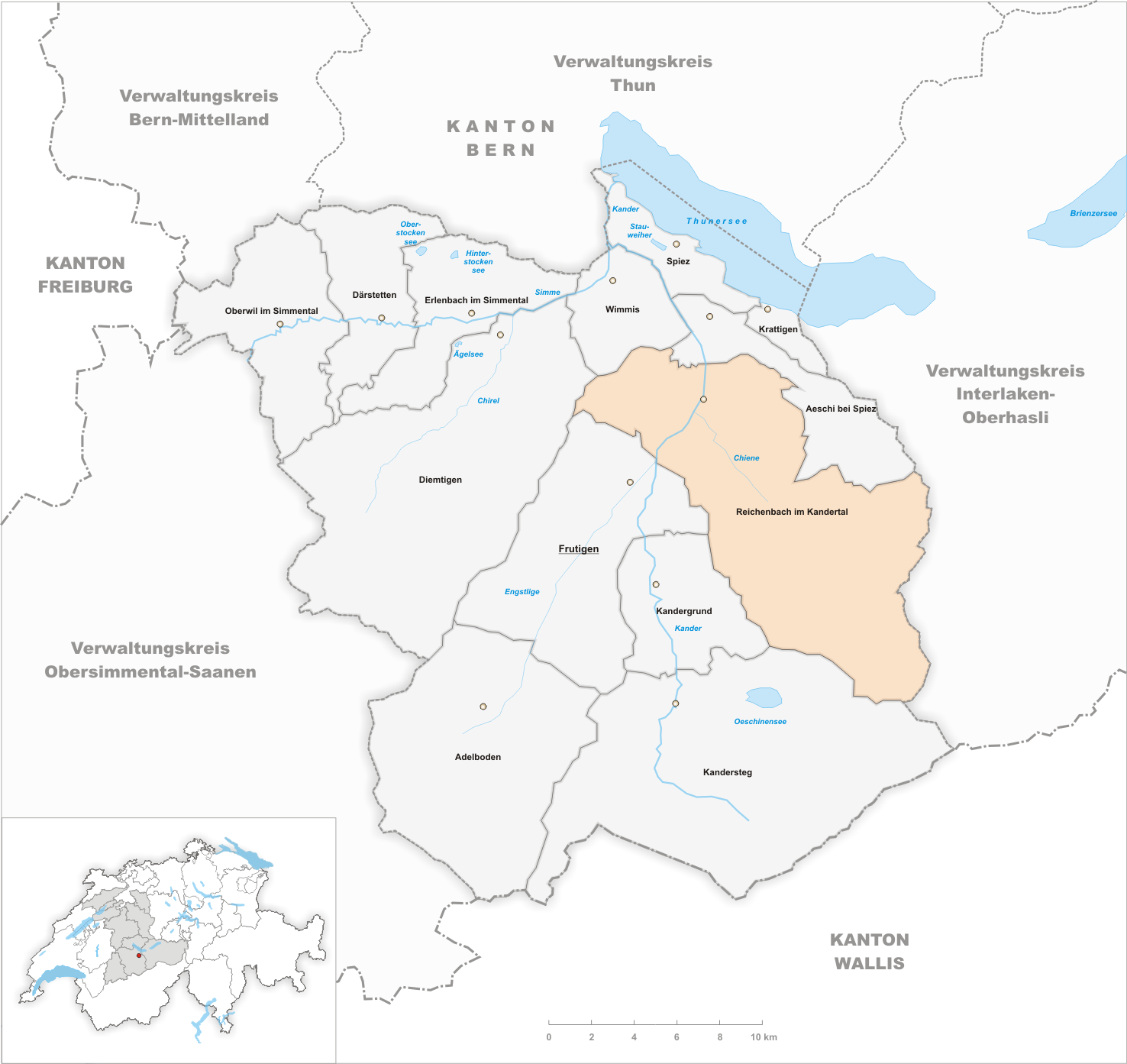 Municipality Reichenbach im Kandertal